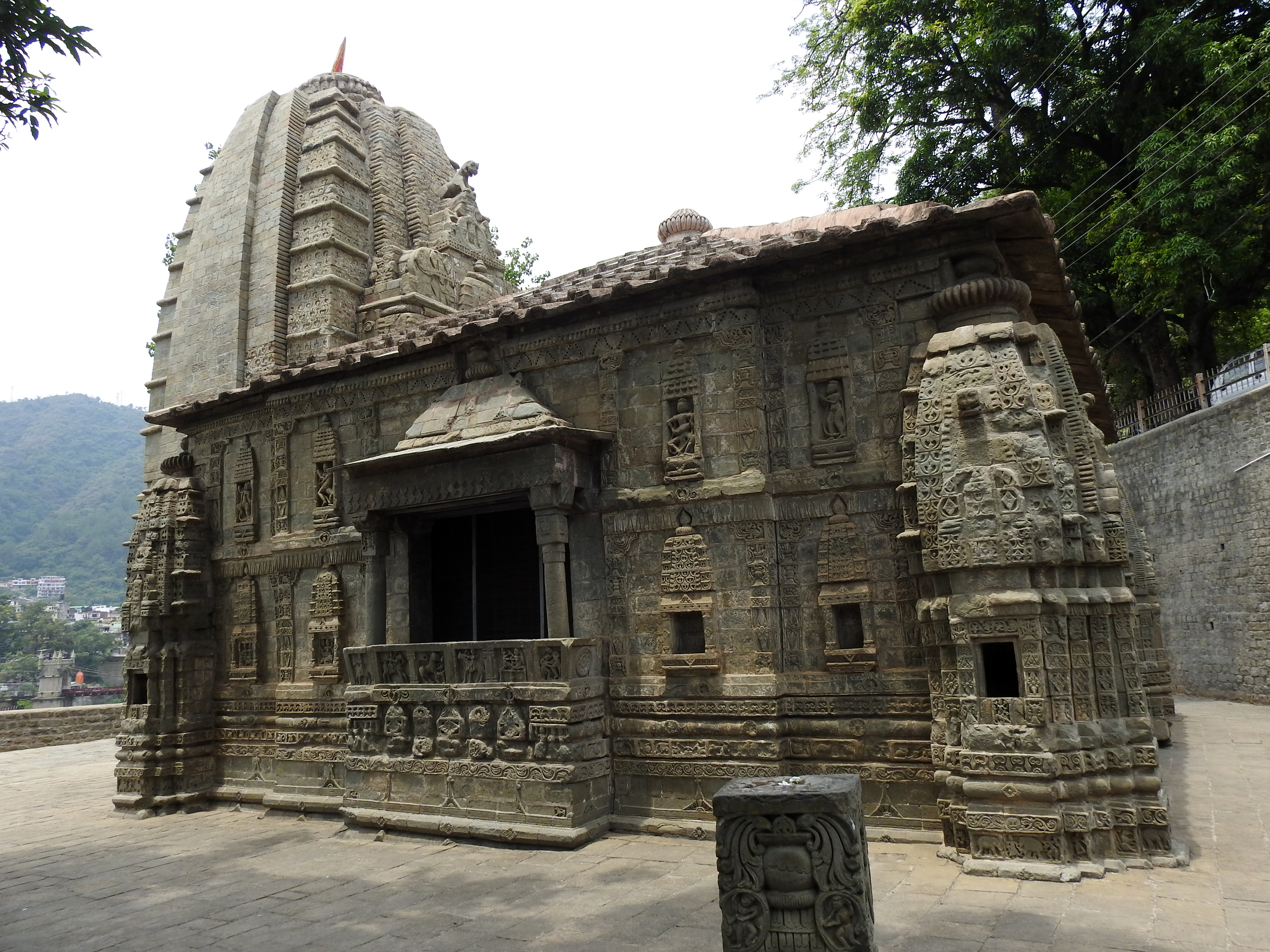 Triloknath Temple is a historic temple, built in the 16th century, known for its numerous sculptures.It is located at NH 20, Purani Mandi, Mandi, Himachal Pradesh 175001 on the bank of river Beas.